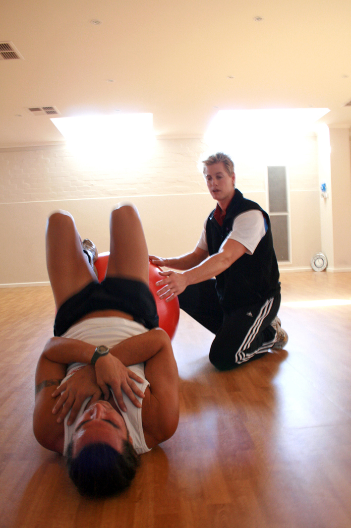 Personal trainer assisting and correcting a client during a fitball stretching exercise